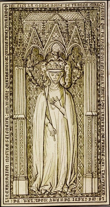 Marguerite of Provence